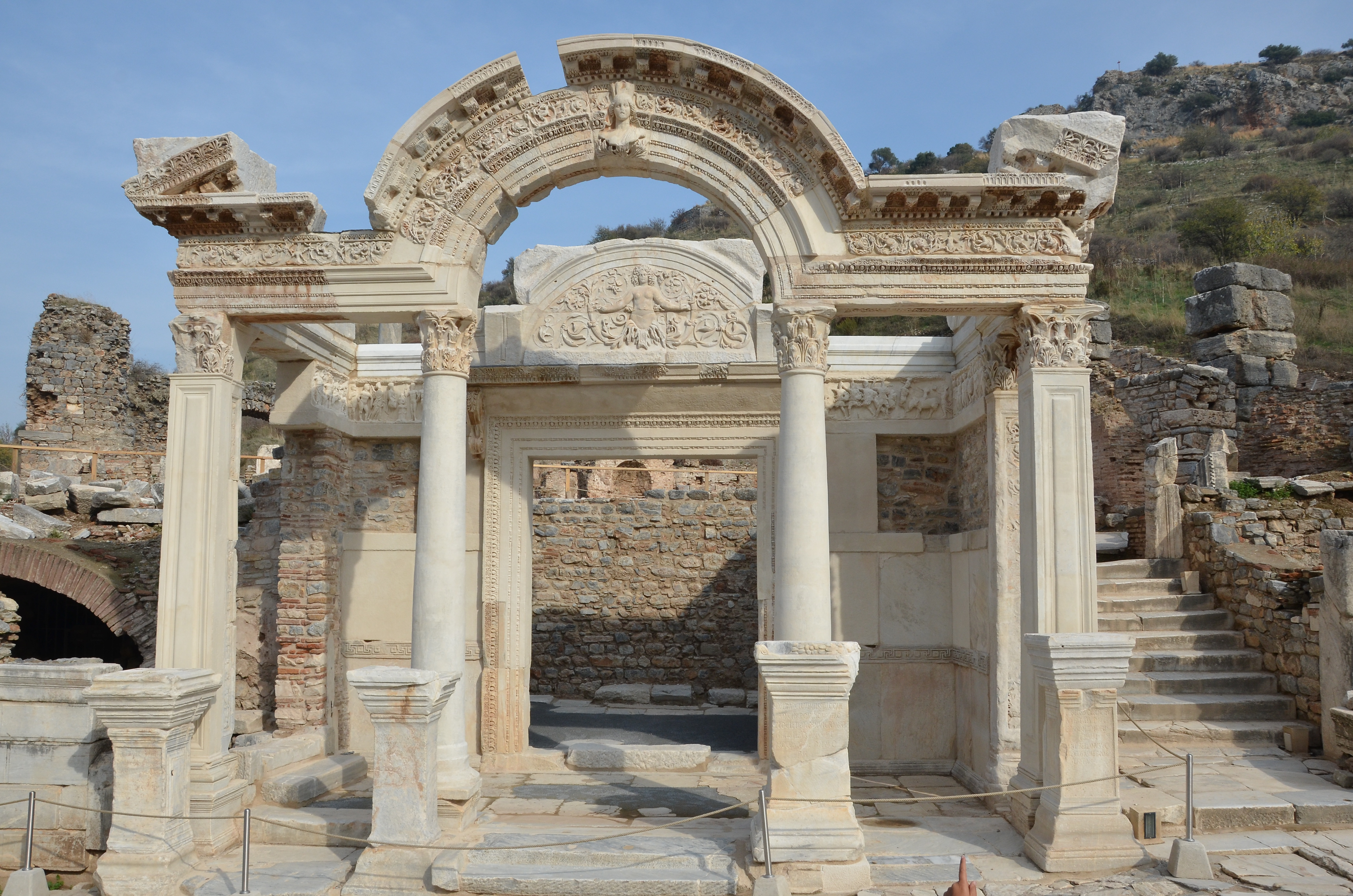 This ruin on the Street of Curetes in Ephesus is probably the best we have seen so far. These are the remains of the beautiful Temple of Hadrian. This is one of the main attractions at Ephesus, with a beautiful arch on the front facade and interesting reliefs of Medusa and other scenes inside. An inscription tells us the temple was erected around 118 AD by one Publius Quintilius (who is otherwise unknown). You can see the bas relief of Medusa (the lady with snakes for her hair (eeeeewwww!) dead centre, on the interior lintel just below the arch. The name 'Temple of Hadrian' is not really accurate, as it is more a monument than a temple, and was dedicated not only to Hadrian but also Artemis and the people of Ephesus. The temple was partially destroyed in the 4th century, and it was during the course of restorations that the four decorative reliefs were added to the lintels of the interior of the porch. (Ephesus (Efes)/ Selcuk, Kusadasi, Turkey, Nov. 2014)